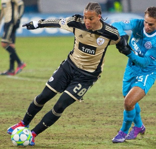 Axel Witsel